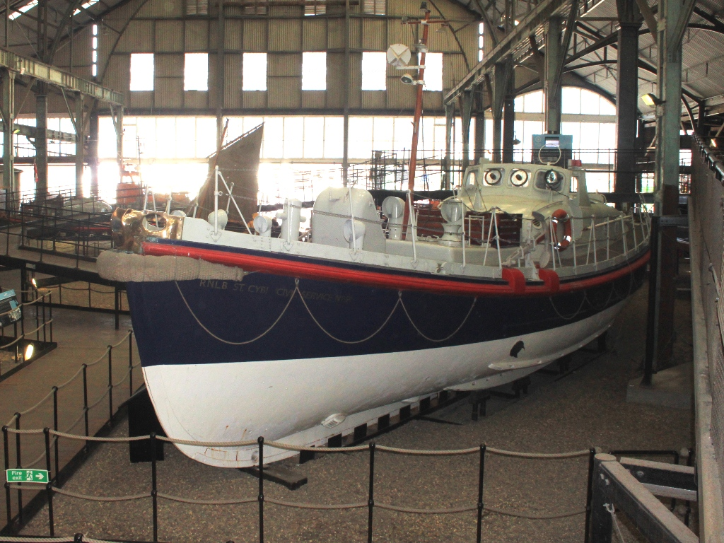 Former Barnett class lifeboat St Cybi (C. S. No. 9) on display at Chatham. It was the Holyhead Lifeboat from 1950 until 1980.